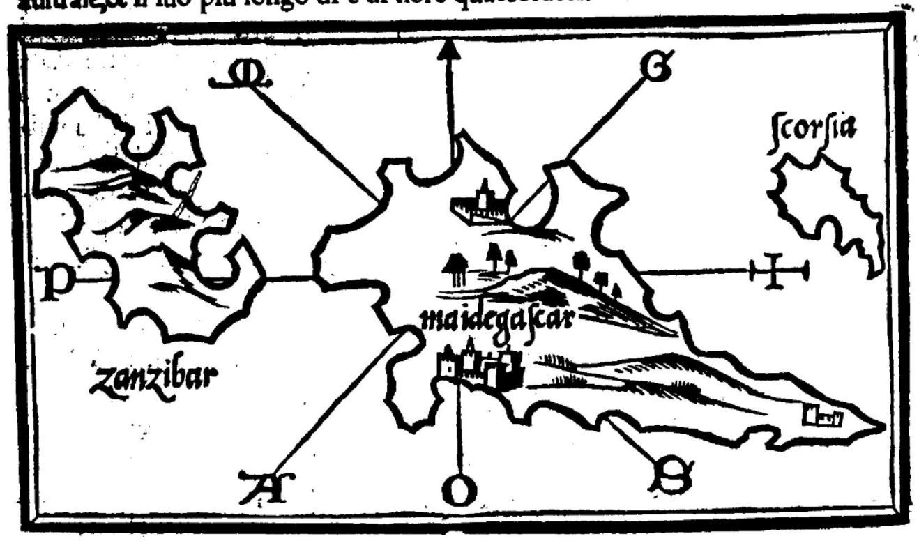 Map of three islands in the Indian Ocean - Madagascar, Zanzibar and Scorsia - contained in the Libro di Benedetto Bordone published in 1528 (entitled Isolario in later editions).